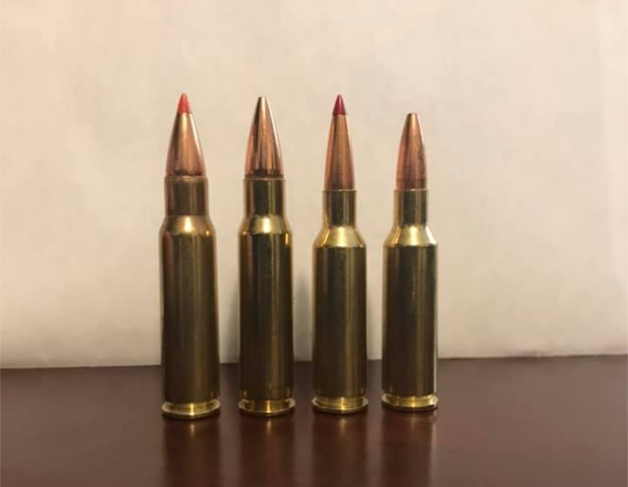 (Left to Right) 110 gr VMax 6.8 SPC, 90gr JHP 6.8 SPC, 88gr ELD .224 Valkyrie, 75gr FMJ .224 Valkyrie